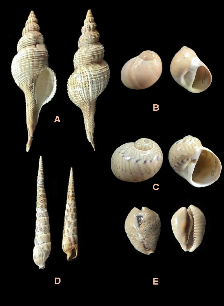 Plate with various shells of gastropods. DIVERSIDAD DE PROSOBRANCHIA A. Fusinus closter B. Polinices lacteus C. Naticarius canrena D. Terebra taurina E. Siphocypraea mus